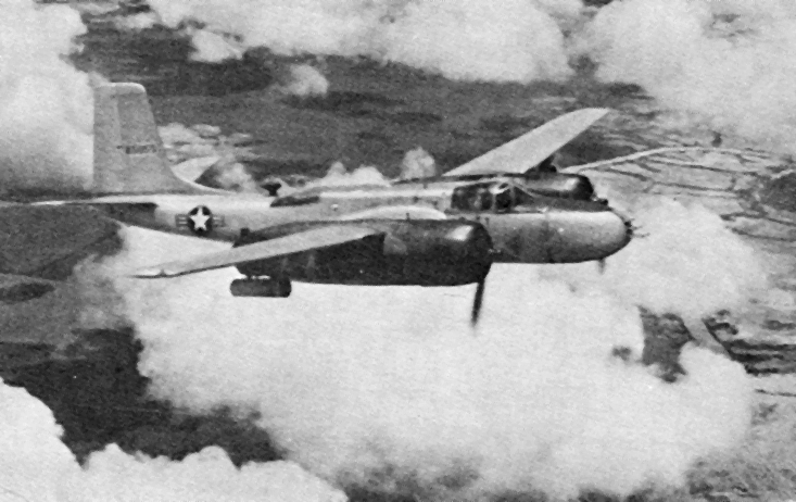 A U.S. Air Force Douglas B-26B Invader with Vietnamese markings in flight over Southeast Asia in the early 1960s. The B-26s operated as B-26B/C or RB-26C/L starting in December 1960 and were withdrawn from service in February 1964 after two accidents related to wing spar fatigue.